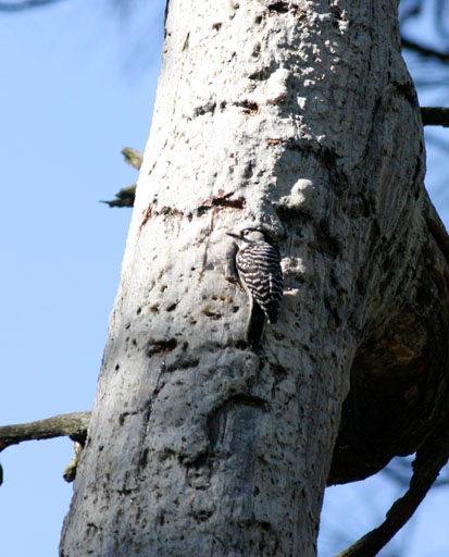 Red-cockaded Woodpecker, Picoides borealis. Notes: at nest cavity in Longleaf Pine, Pinus palustris. This particular cavity was started artificially, but the woodpeckers drilled sap wells all around it. Note sap covering trunk of tree. Location: Weymouth Woods Preserve, Moore County, North Carolina, United States.